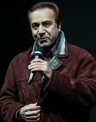 Mohammad Golriz